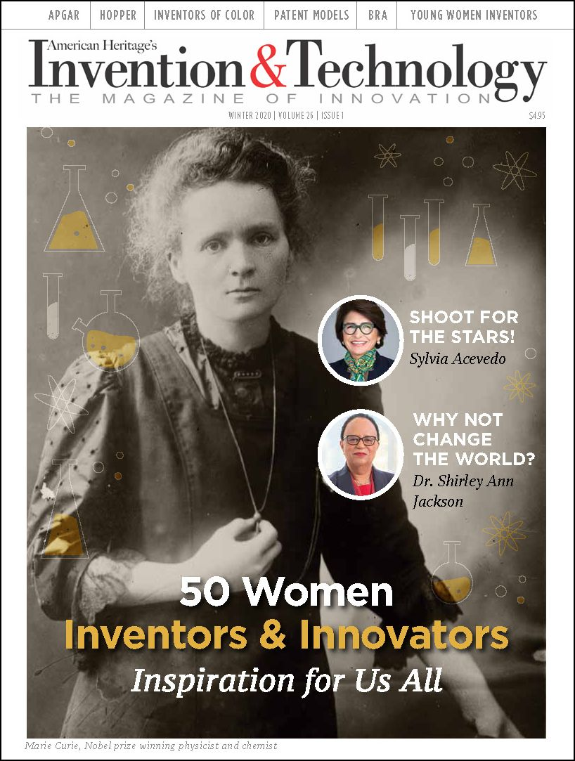 Cover of the Winter 2020 Issue of Invention and Technology